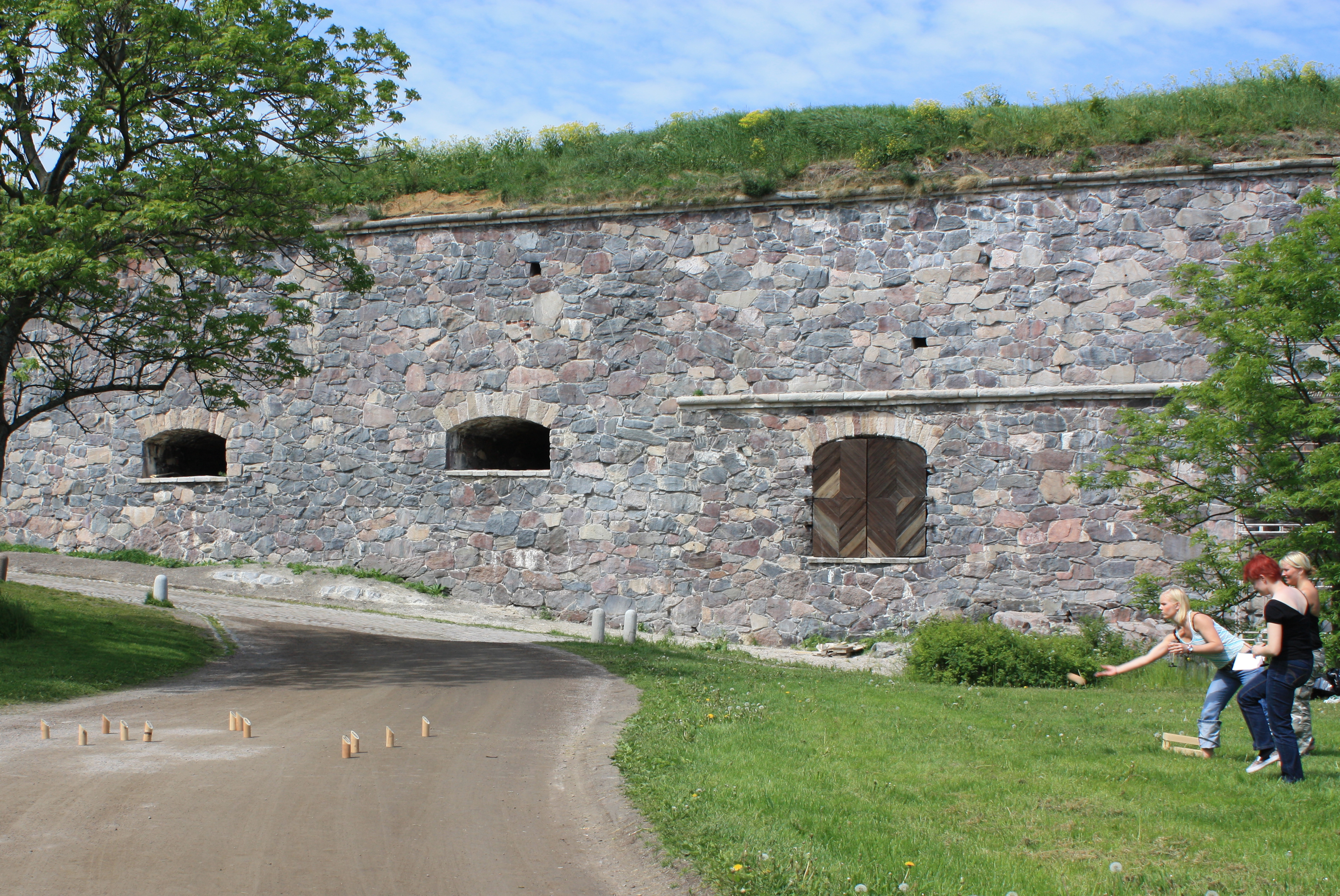 Mölkky players in Suomenlinna